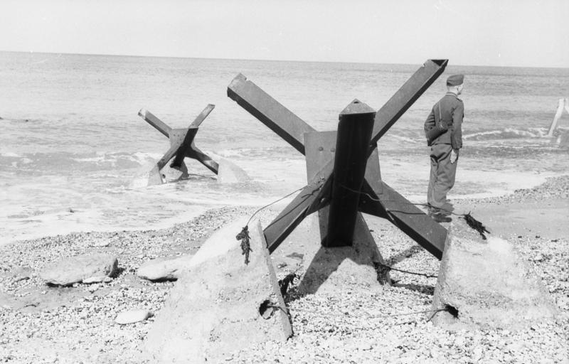 Information added by Wikimedia users.